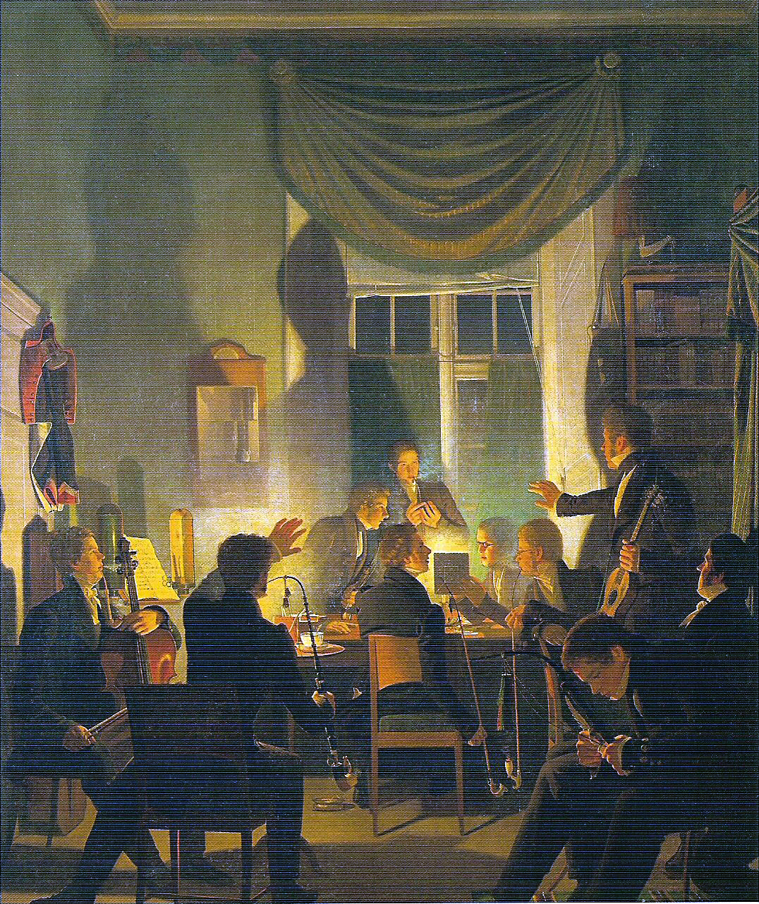 Tobacco cometogether